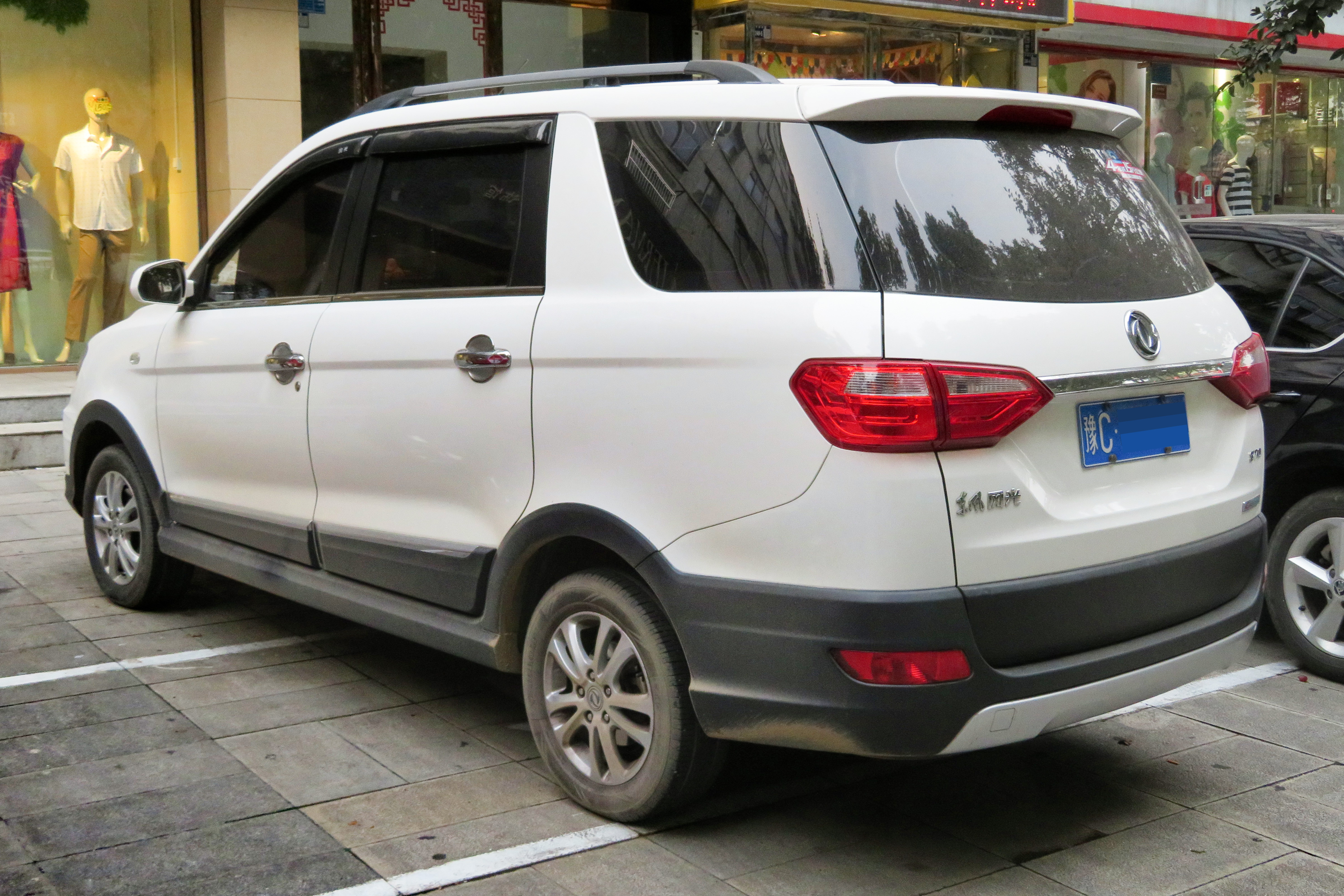 A 2017 Dongfeng-Fengguang 370 photographed in Xigong District, Luoyang, Henan province, China